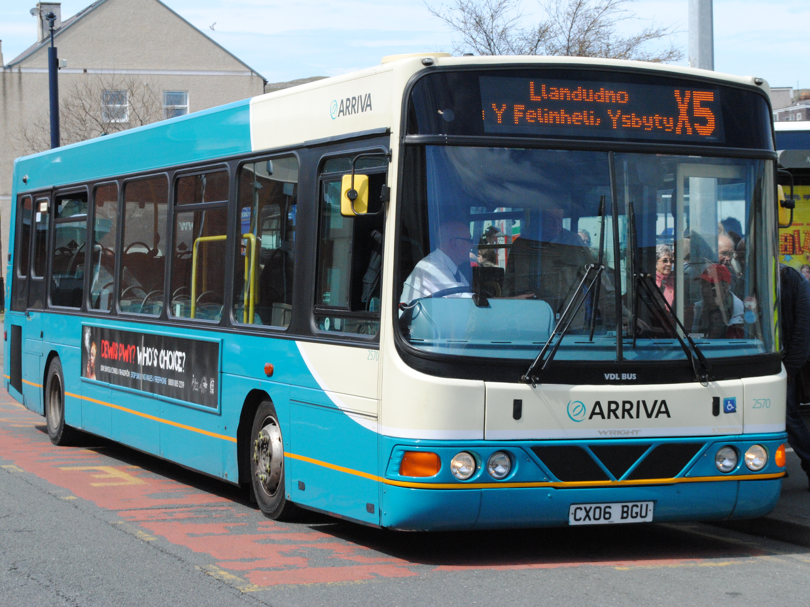 VDL SB120CS Wright Cadet